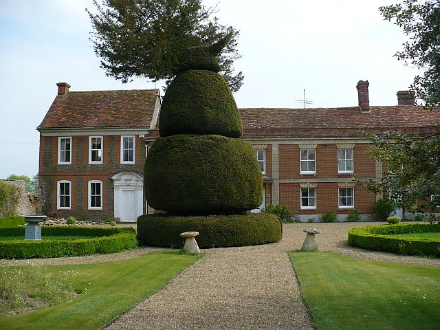 Manor House, Drayton, Vale of White Horse, Oxfordshire (formerly Berkshire). The range on the right is probably 15th century with an early 20th century front. The wing on the left is early 18th century.